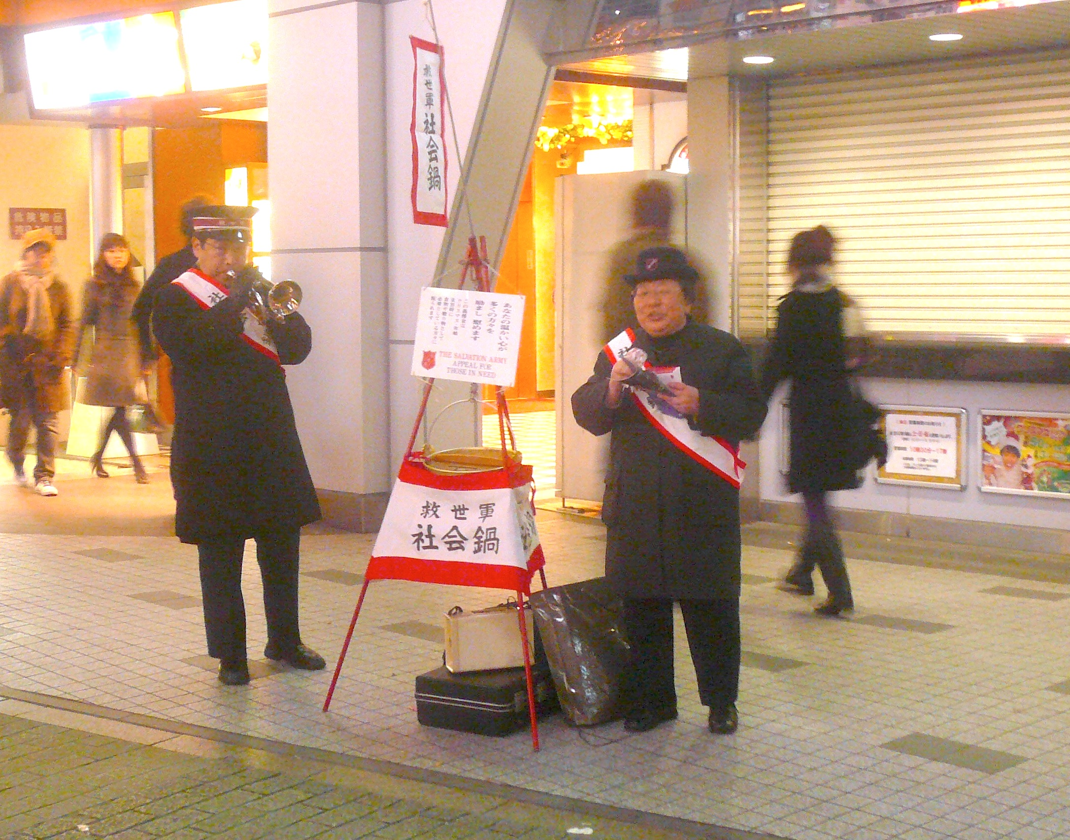 Salvation Army in Japan (日本の救世軍)